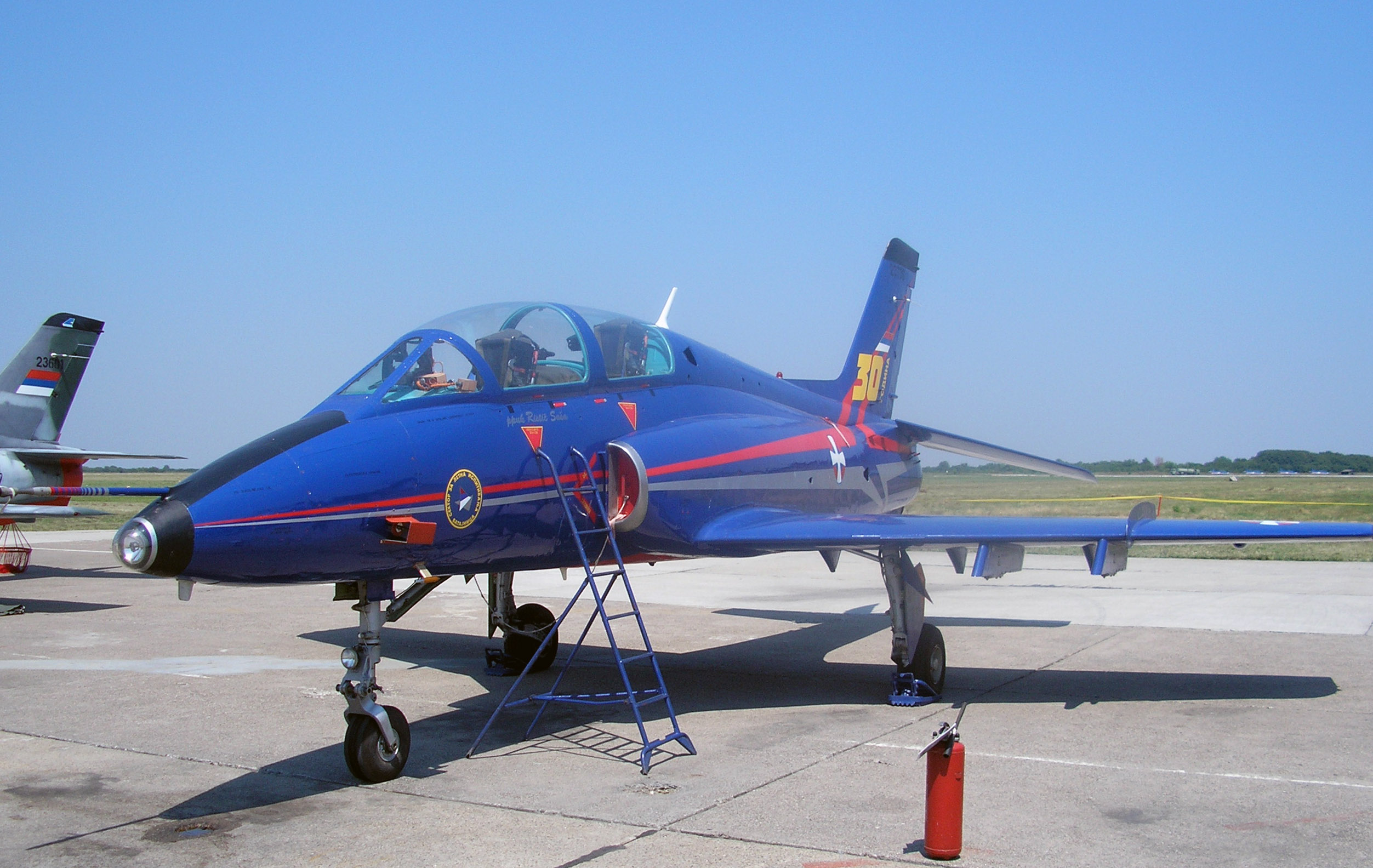 G-4 Super Galeb trainer/light attack jet aircraft No.23736 of Flight-Test Sector (SLI, ex-Flight-Test Center - VOC) of Technical Test Center (TOC) on display at Batajnica airbase during the Saint Elijah, the Aviation Day in Serbia. On aircraft with attractive paint job is flying TOC test pilot lieutenant colonel Saša Ristić. The aircraft is decorated with "30th ANNIVERSARY" words as celebrate of 30 years of Super Galebs first made flight.